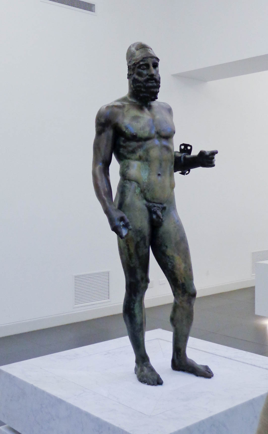 Riace bronze B. 3/4 front vue.